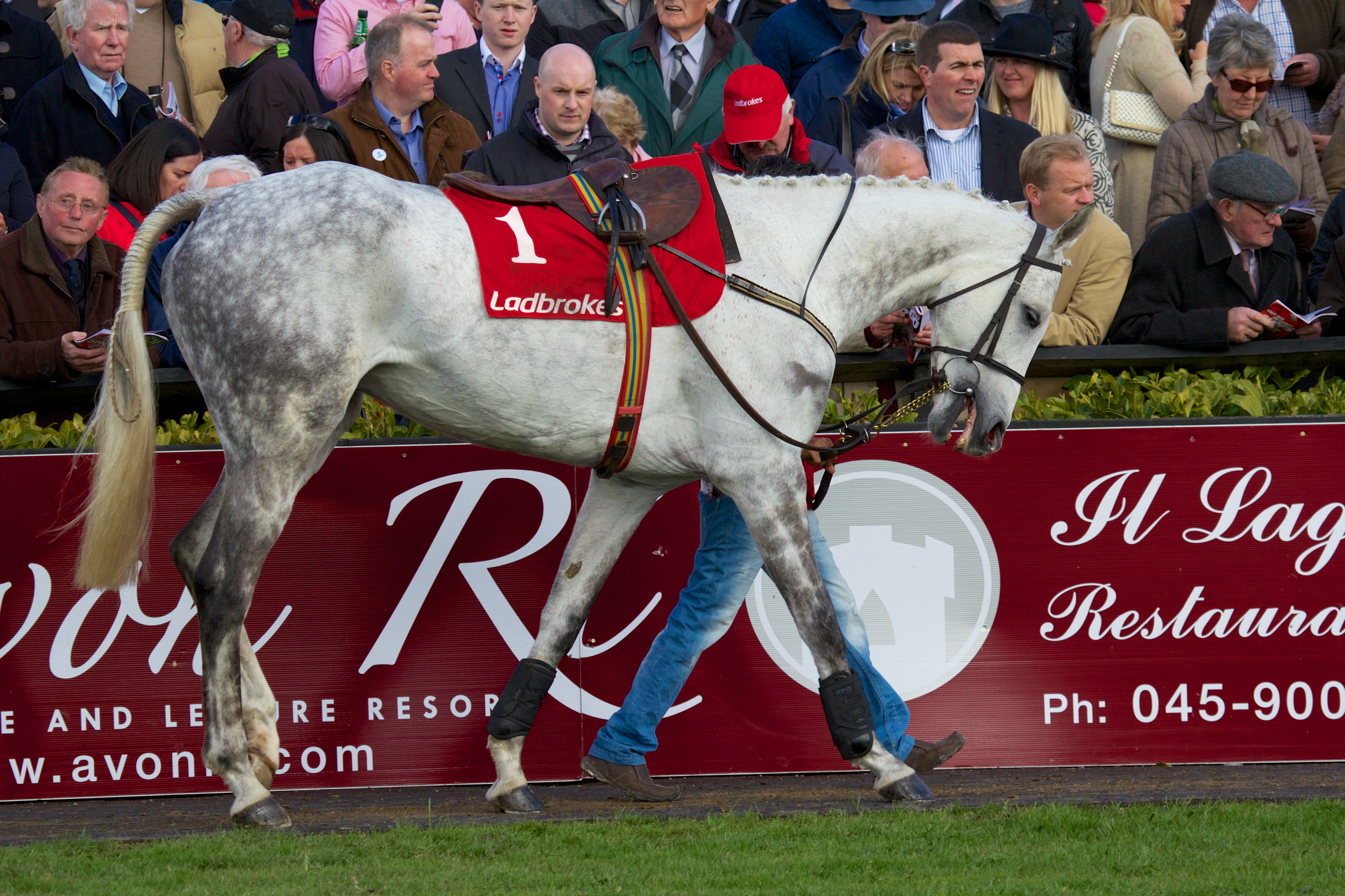 Fiveforthree pre race at Punchestown Festival in April 2013.